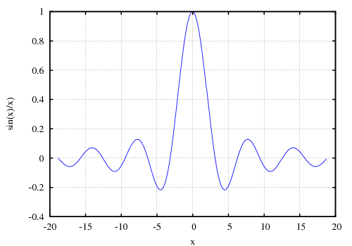 author izik, source: plot generated with gnuplot